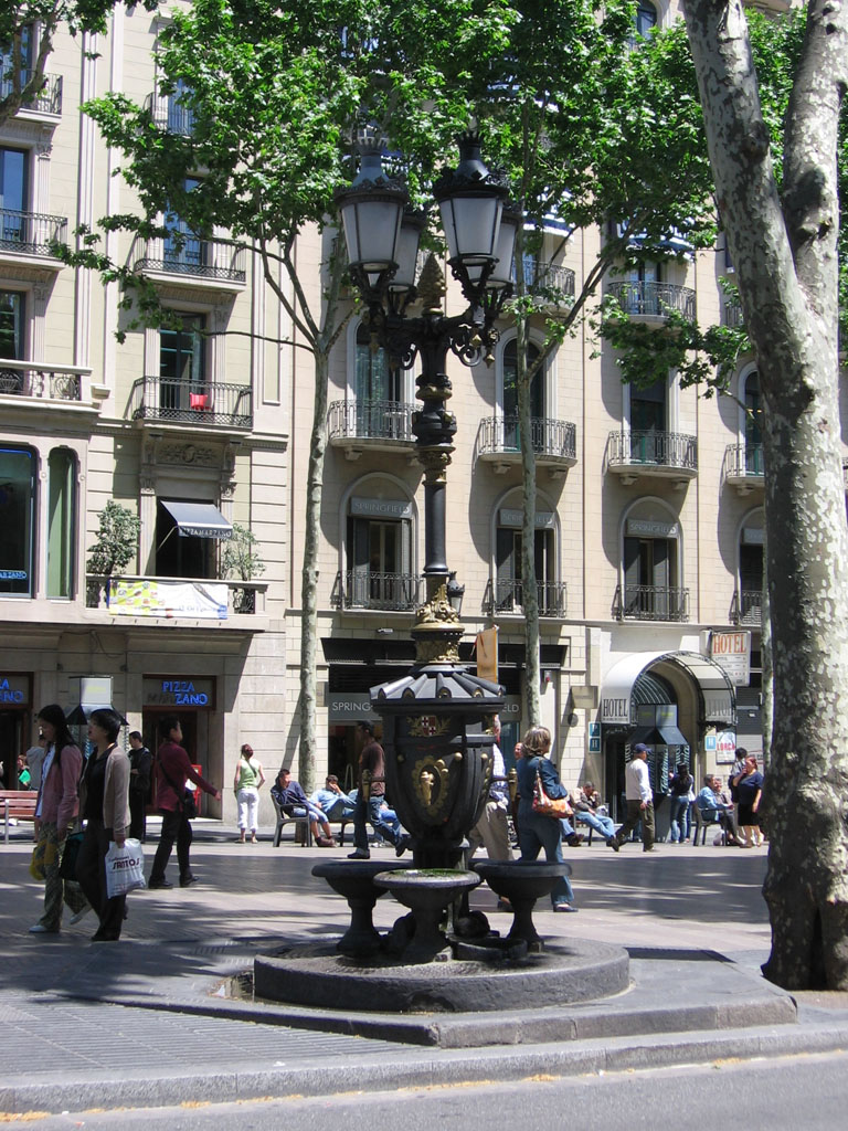 Canaletes Fountain, a meeting point for the Futbol Club Barcelona supporters.